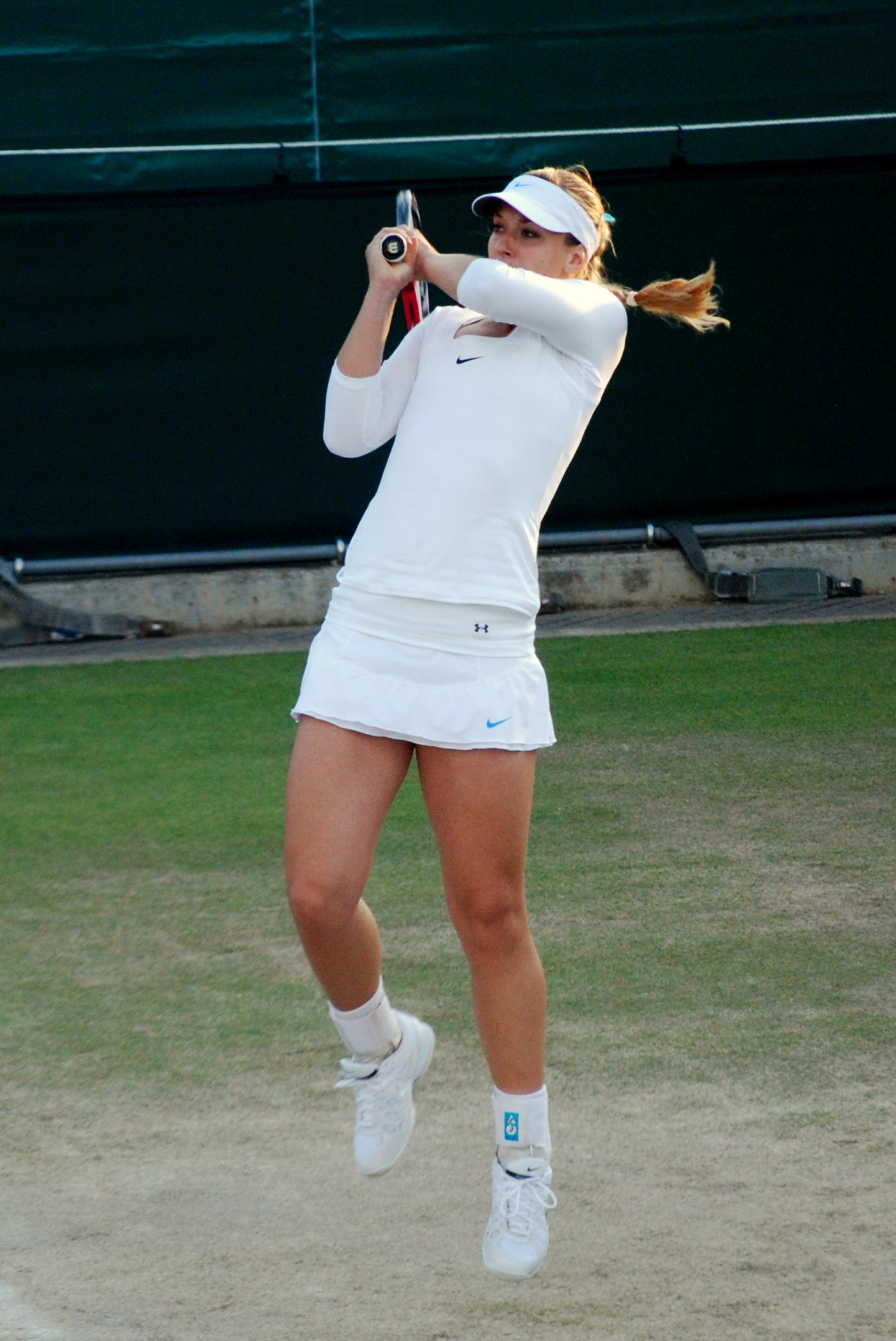 Sabine Lisicki during her doubles semi-final with Sam Stosur against Marina Erakovic & Tamarine Tanasugarn. The match had to be finished the following day, with Lisicki & Stosur winning 6-3 4-6 8-6. They then went on to play the final, in which they lost to Kveta Peschke & Katarina Srebotnik. Day 11 of Wimbledon 2011.